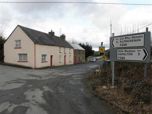 Road at Drumman Looking NNW